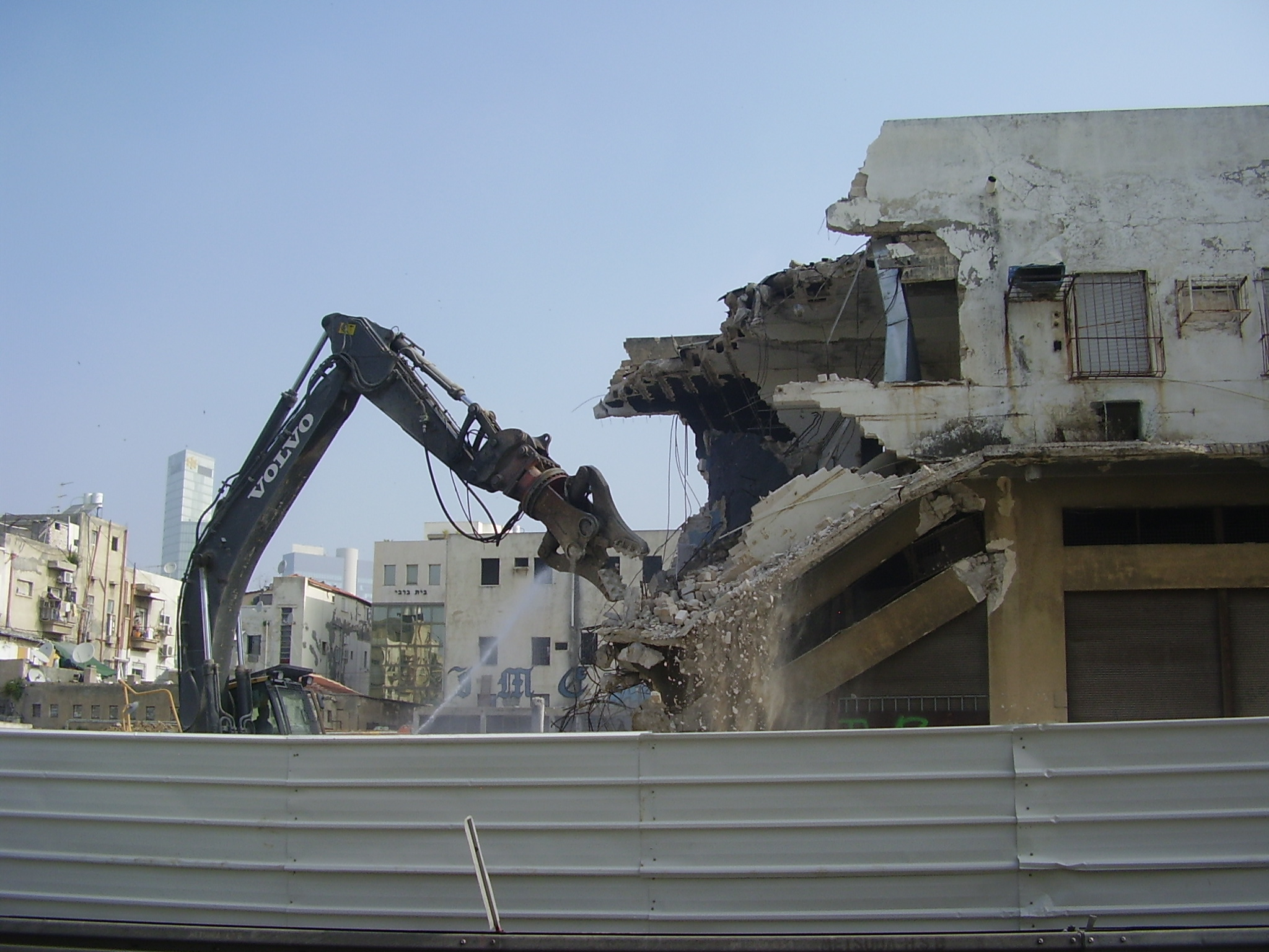 demolition of aliya market in tel aviv